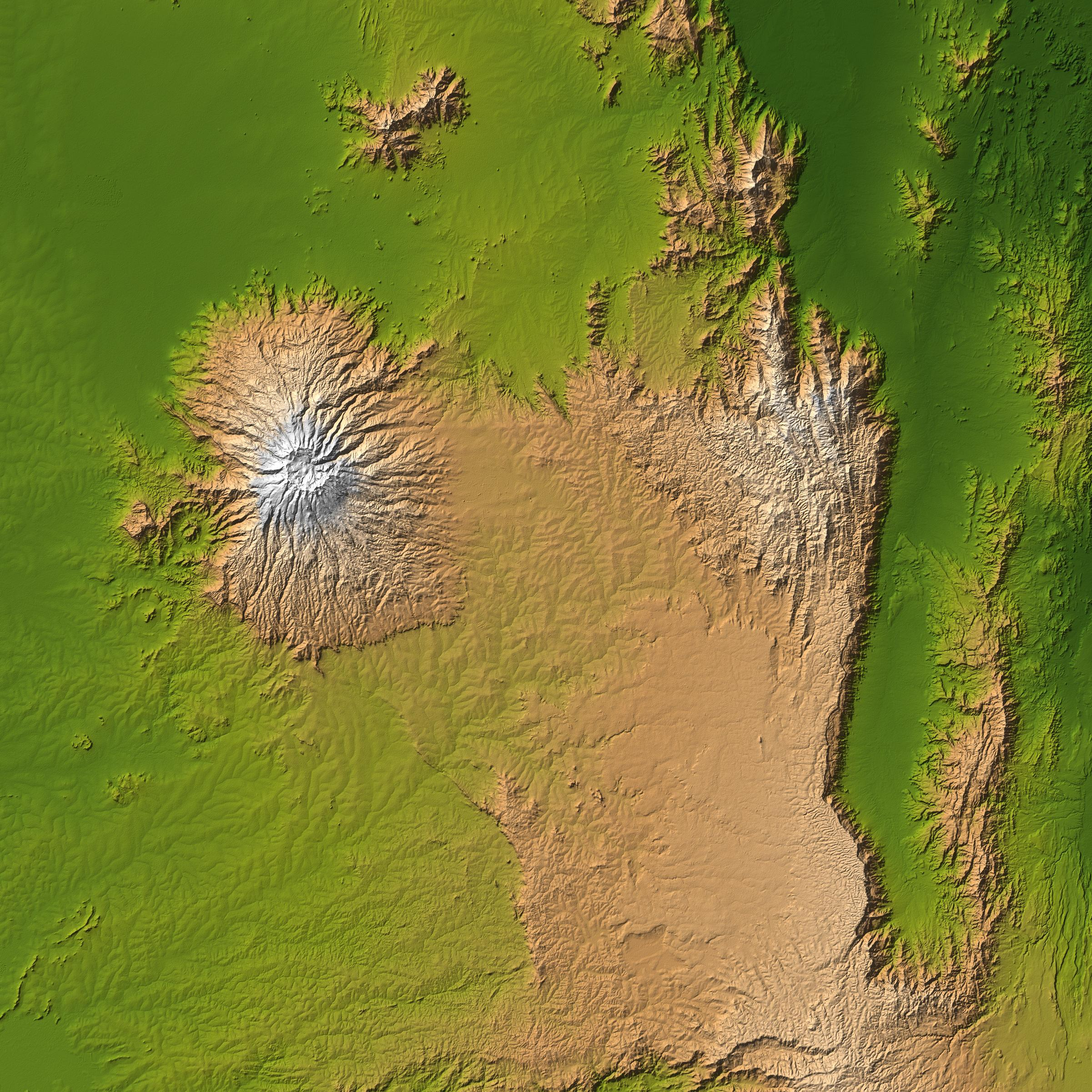 Mt. Elgon, Africa topography image description here